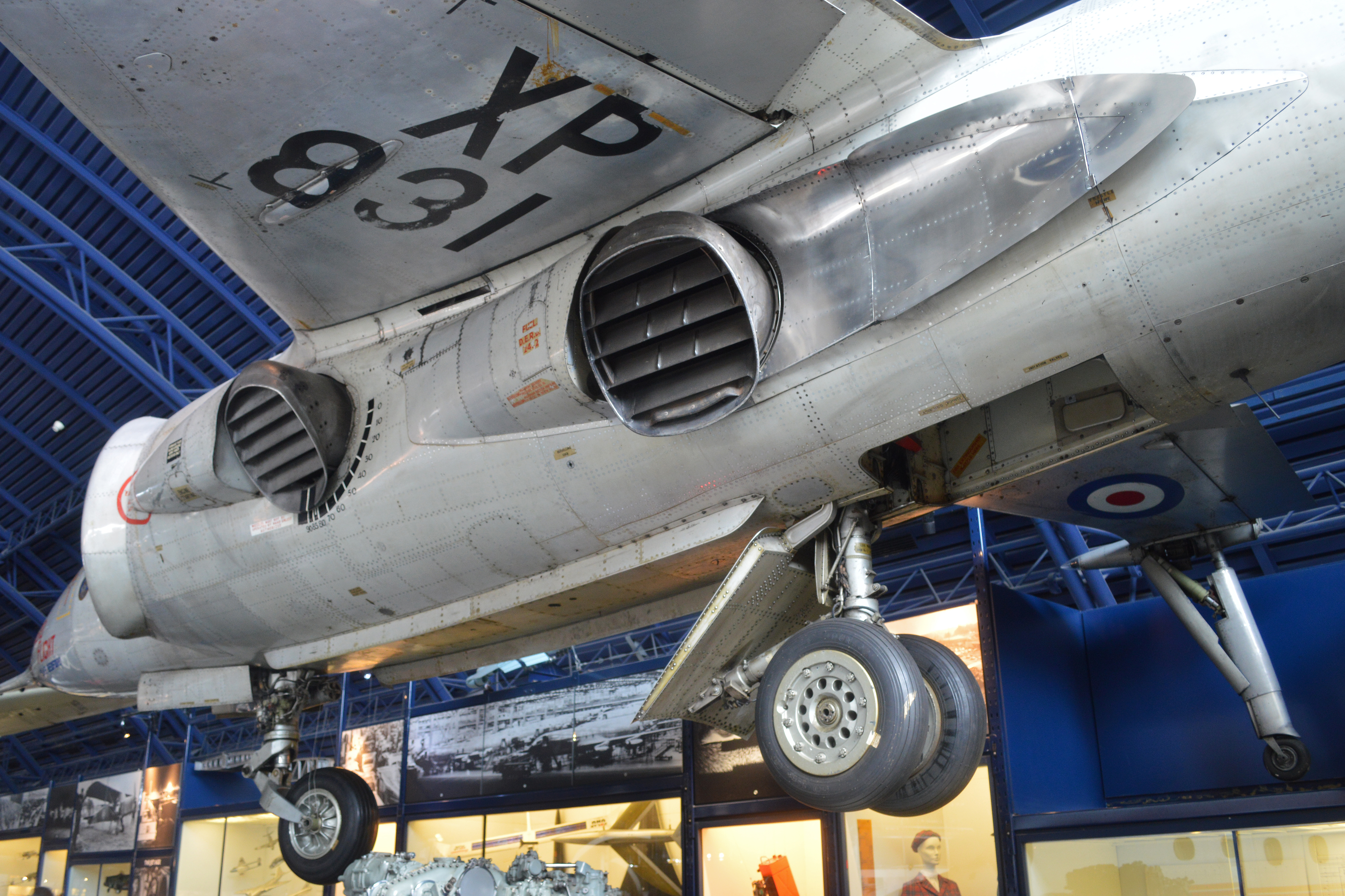 Built 1960. This is the first prototype P1127 and the first to achieve a vertical take-off, on 21st October 1960. The P 1127 developed into the Kestrel and then the Harrier, the world's first operational vertical take-off and landing (VTOL) jet fighter. The second generation of Harrier remains in service with various international air arms, including the US Marines. Initially on display at the RAF Museum at Hendon, XP831 is now on display in the ‘Flight’ Hall of the Science Museum, South Kensington, London. 16-6-2015